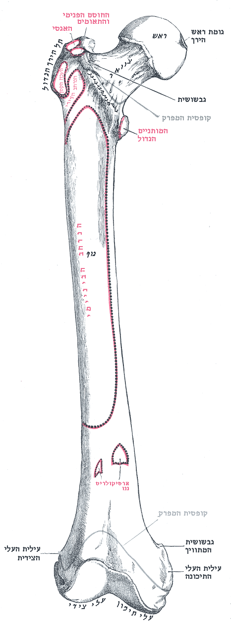 Right femur, anterior surface.